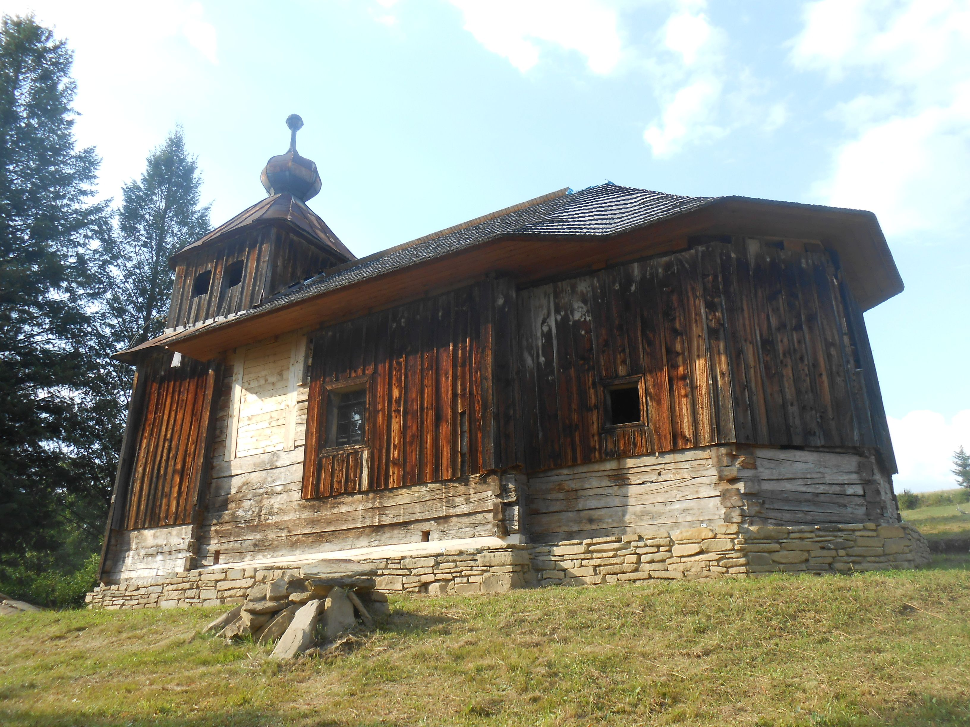 Wooden church of the Ascencion of Christ in Šmigovec built in 1755